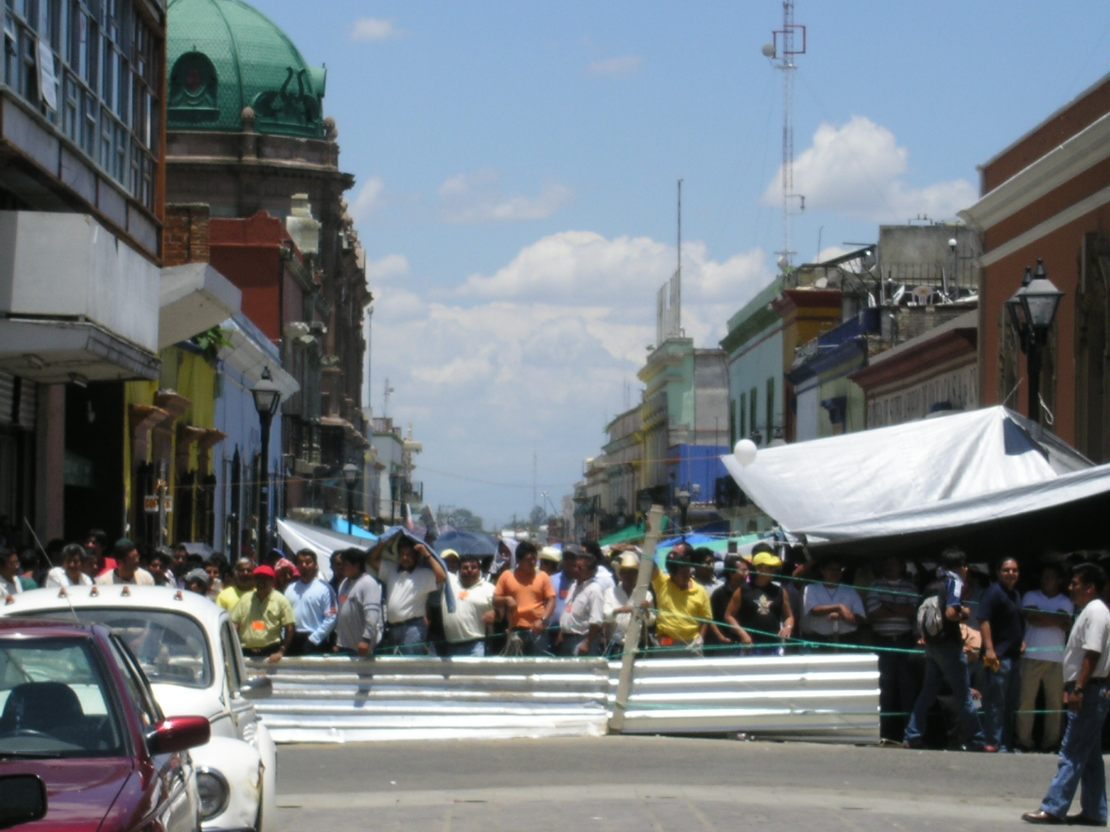 Photo of protests taken in Oaxaca City centre on 22nd June 2006